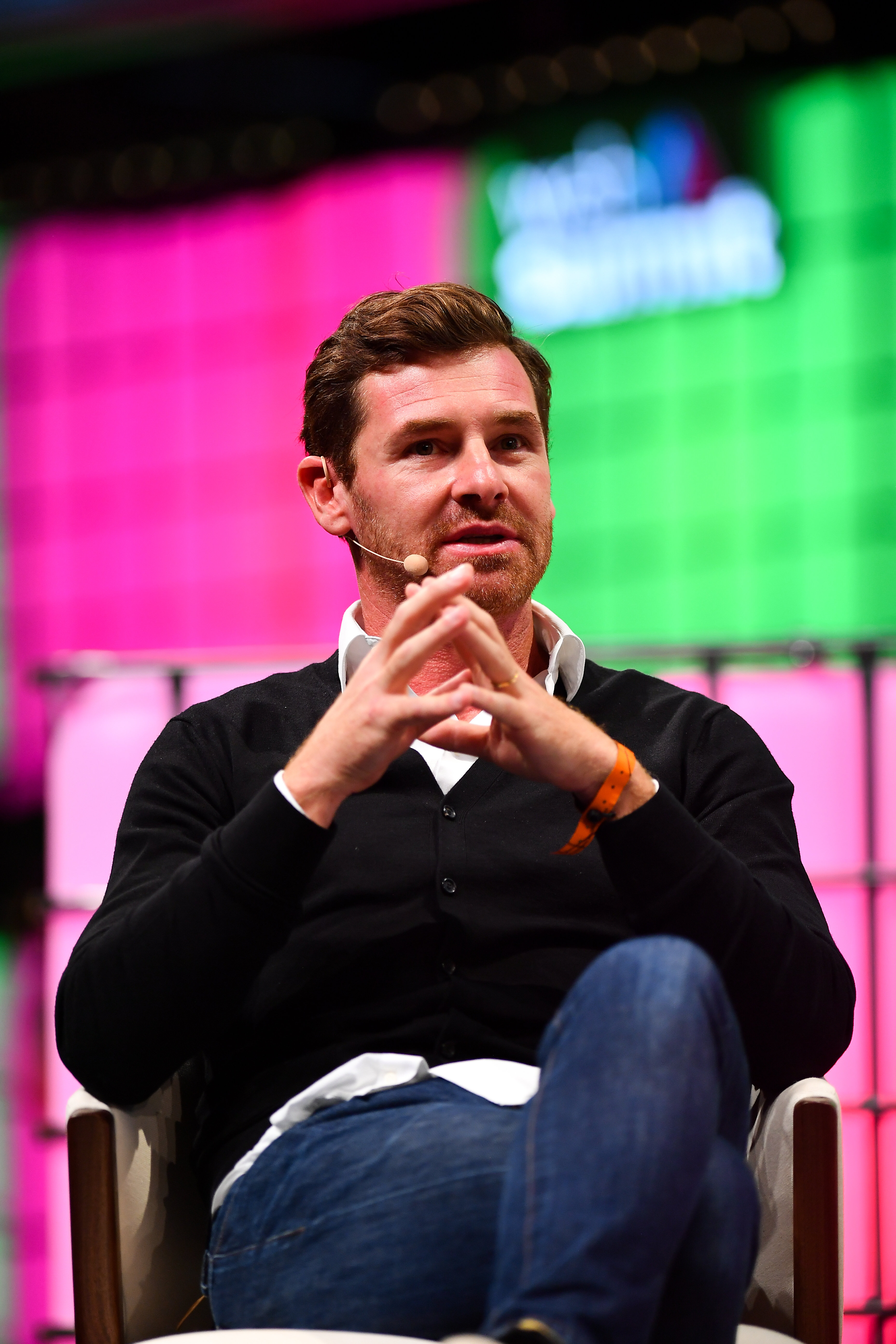 6 November 2018; André Villas-Boas on Centre Stage during the opening day of Web Summit 2018 at the Altice Arena in Lisbon, Portugal. Photo by Seb Daly/Web Summit via Sportsfile